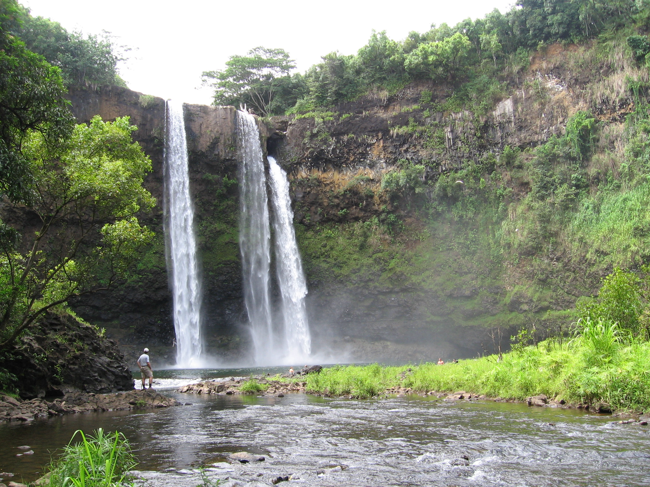 Wailua Falls, Kauai, Hawaii. To get this image, I had to hike on the illegal path to the bottom of the cliff. The more common image of Wailua Falls is taken from the top of the cliff where the road runs close to the falls. If you want that image too, send me a message.